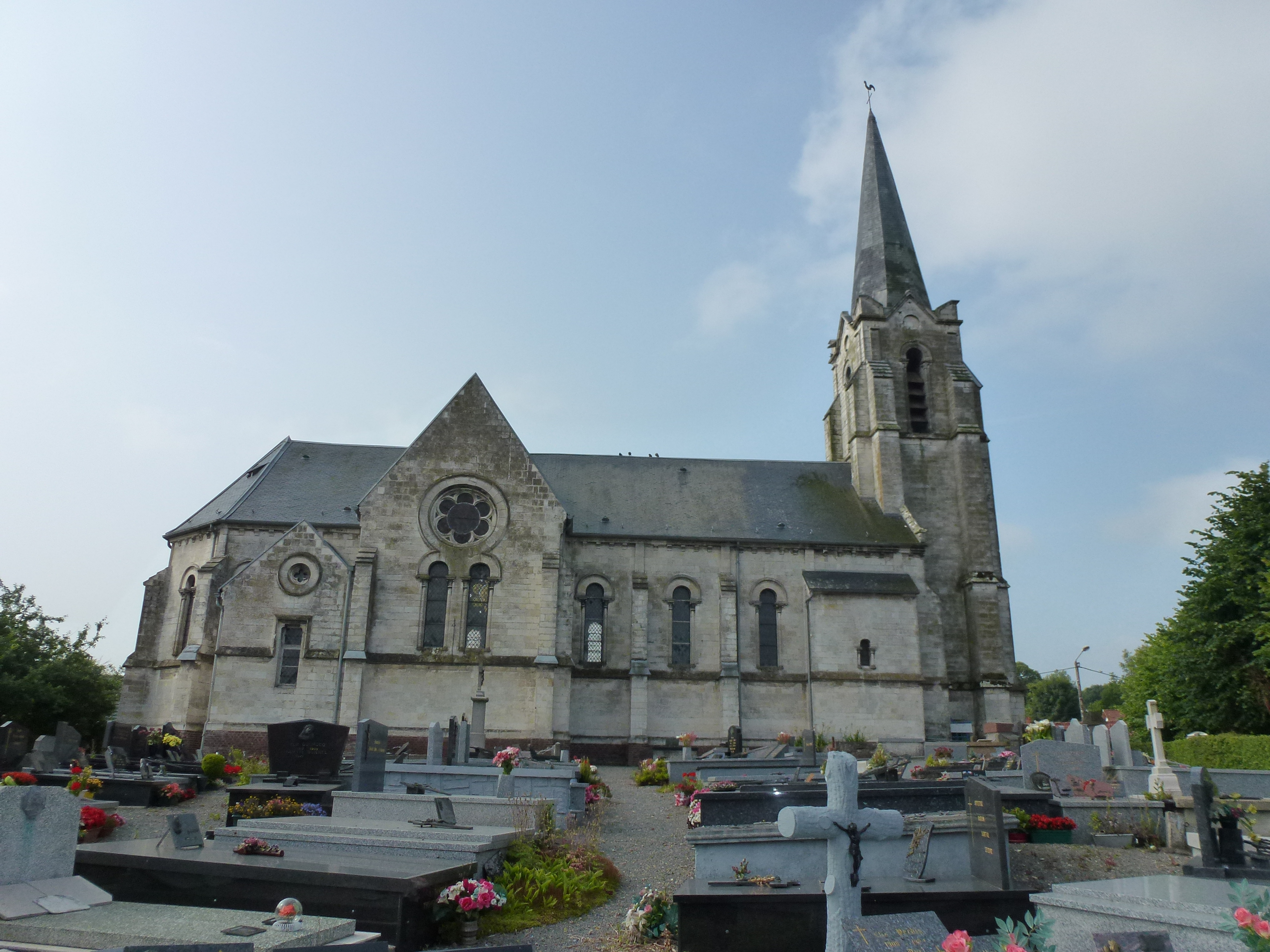 Erny-Saint-Julien (Pas-de-Calais, Fr) église Saint-Julien coté nord